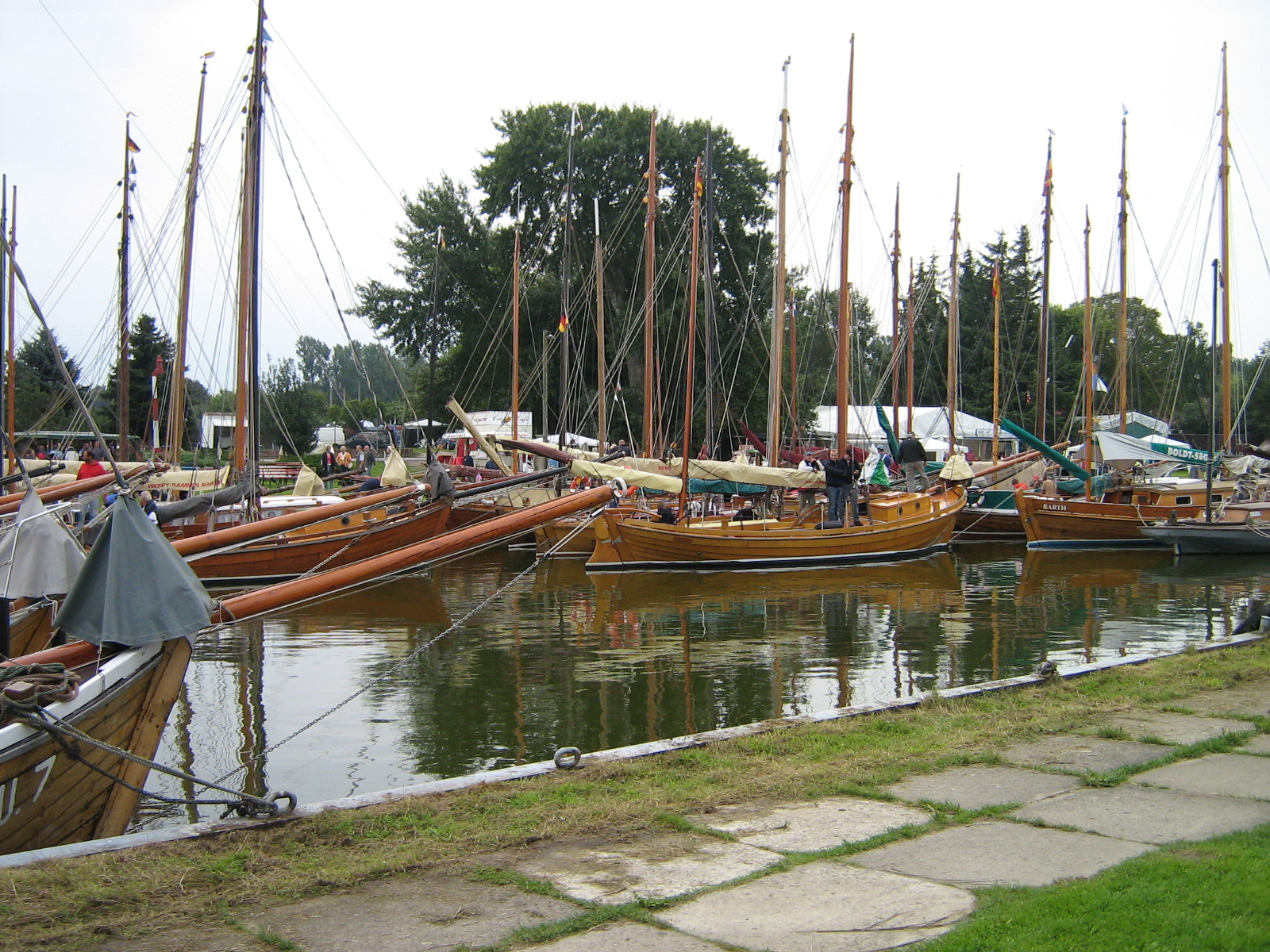 The Port of Bodstedt in Mecklenburg-Western Pomerania